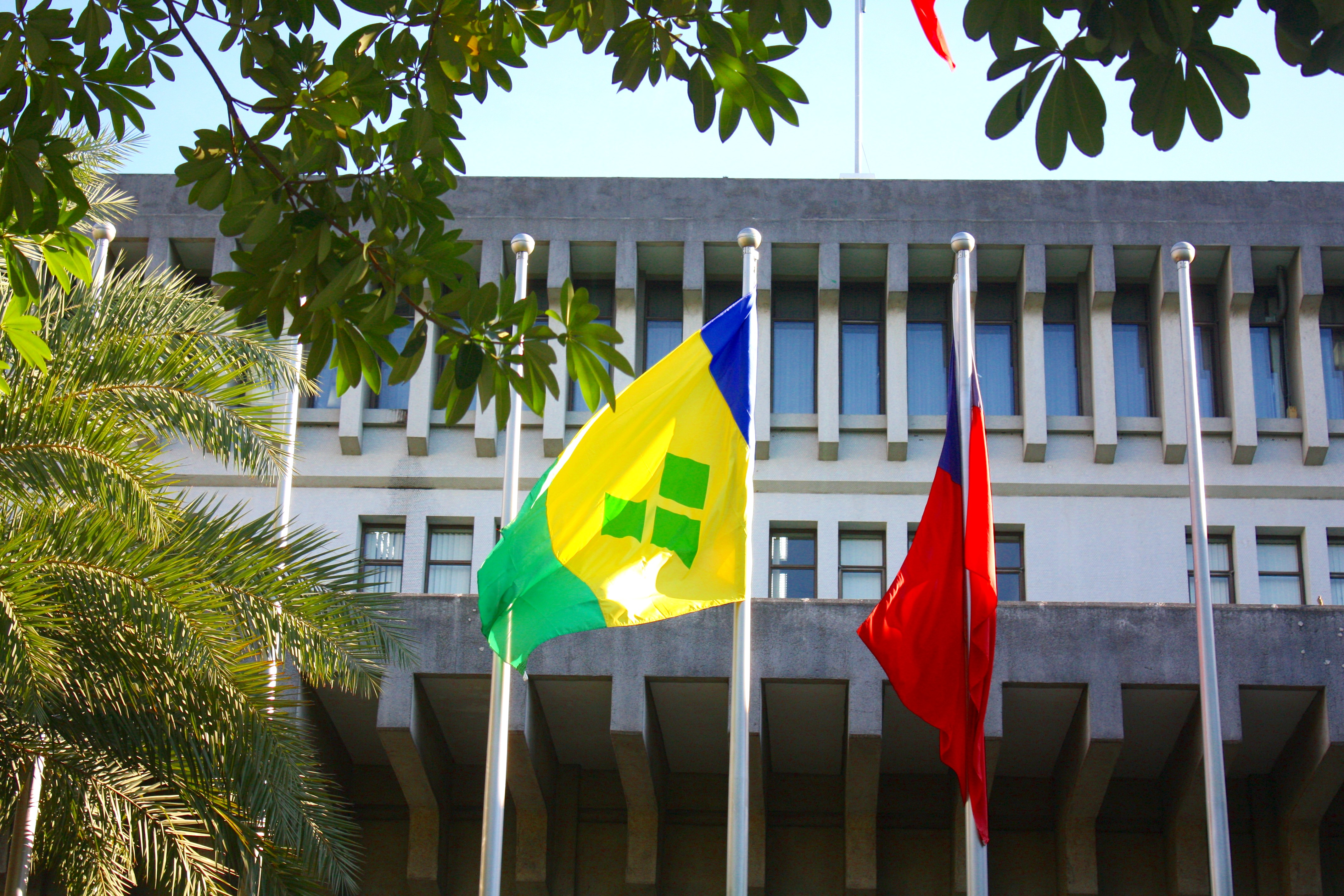 Ministery of Foreign Affairs of Republic of China Building in Taipei with flags of Republic of China and St. Vincent and the Grenandines